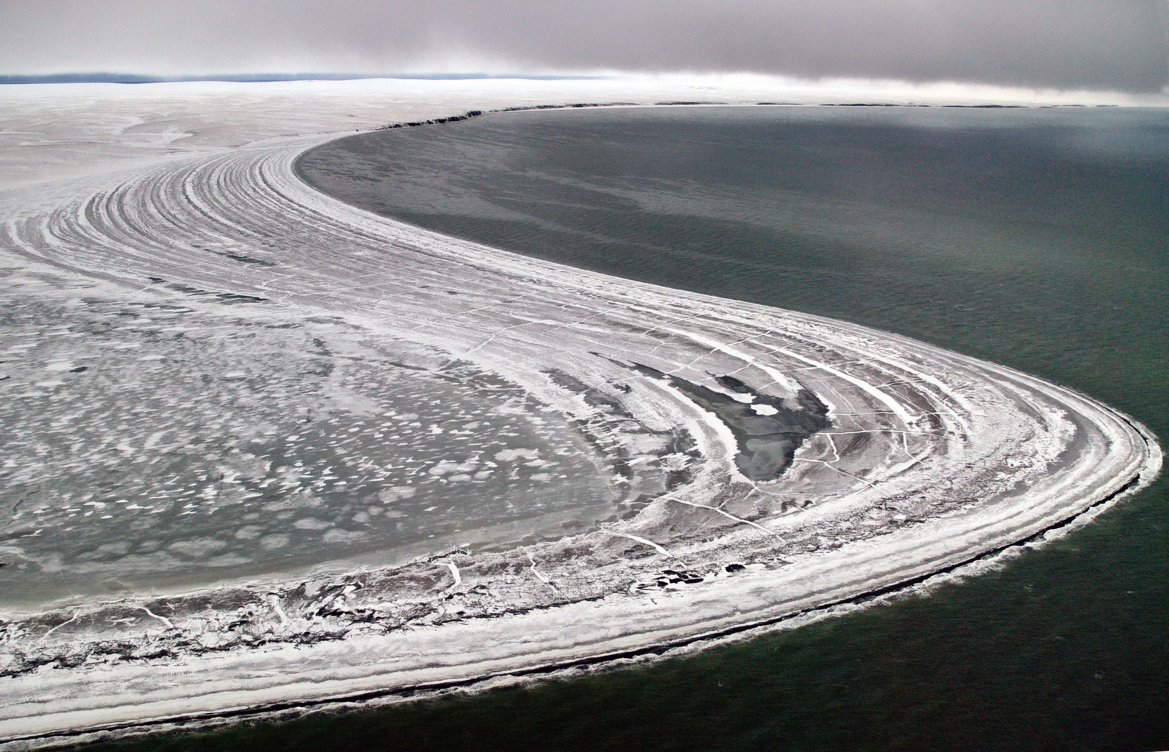 coast of Belkovsky Island, October 2010